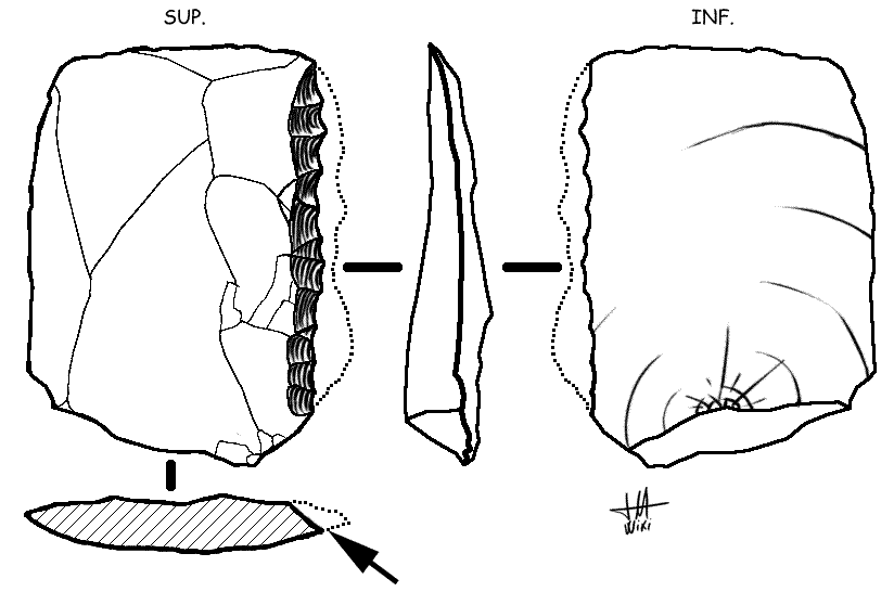 Direct removals for retouch